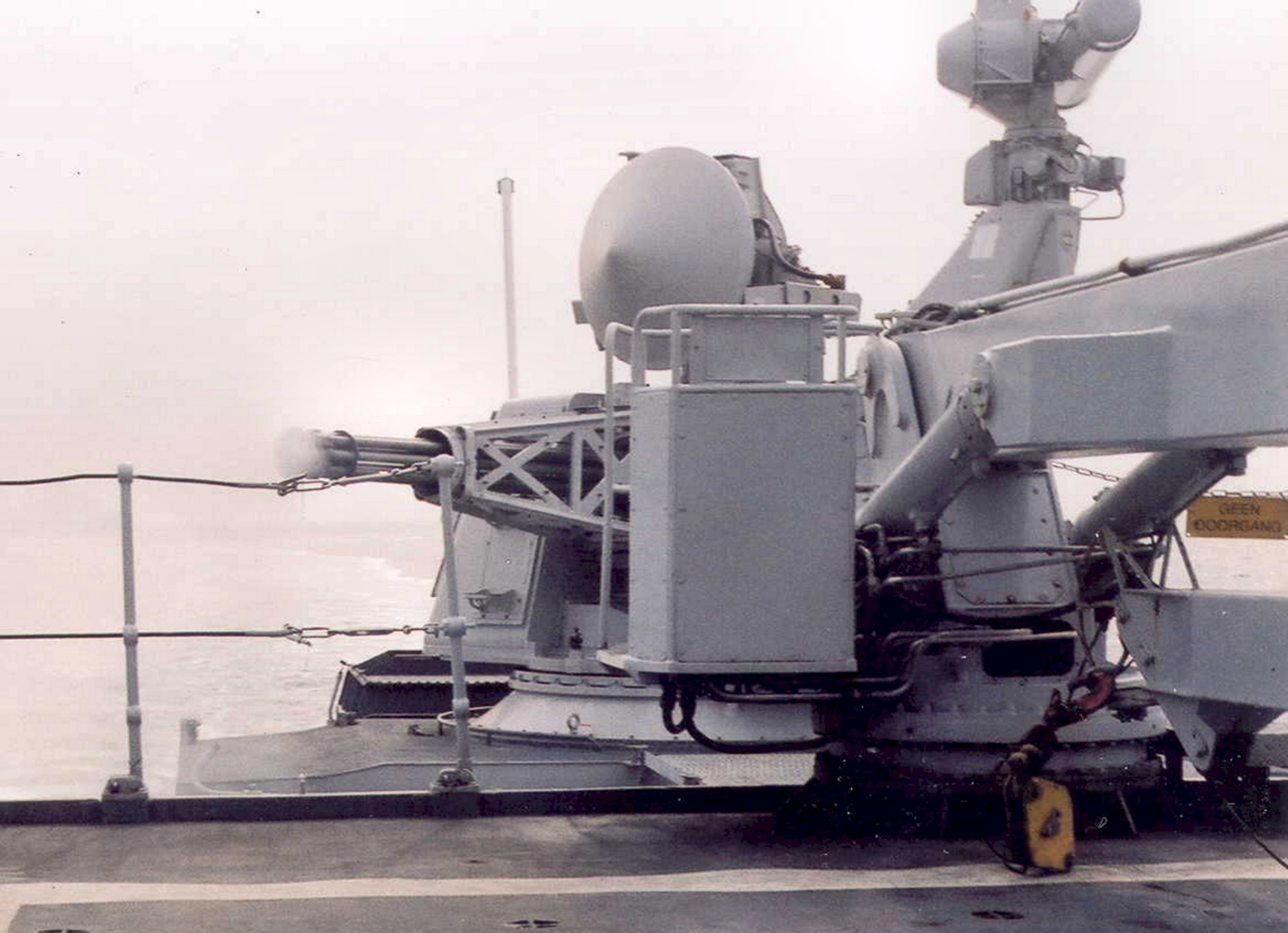 Goalkeeper system on HNLMS Hr. Ms. Jacob van Heemskerck in action.